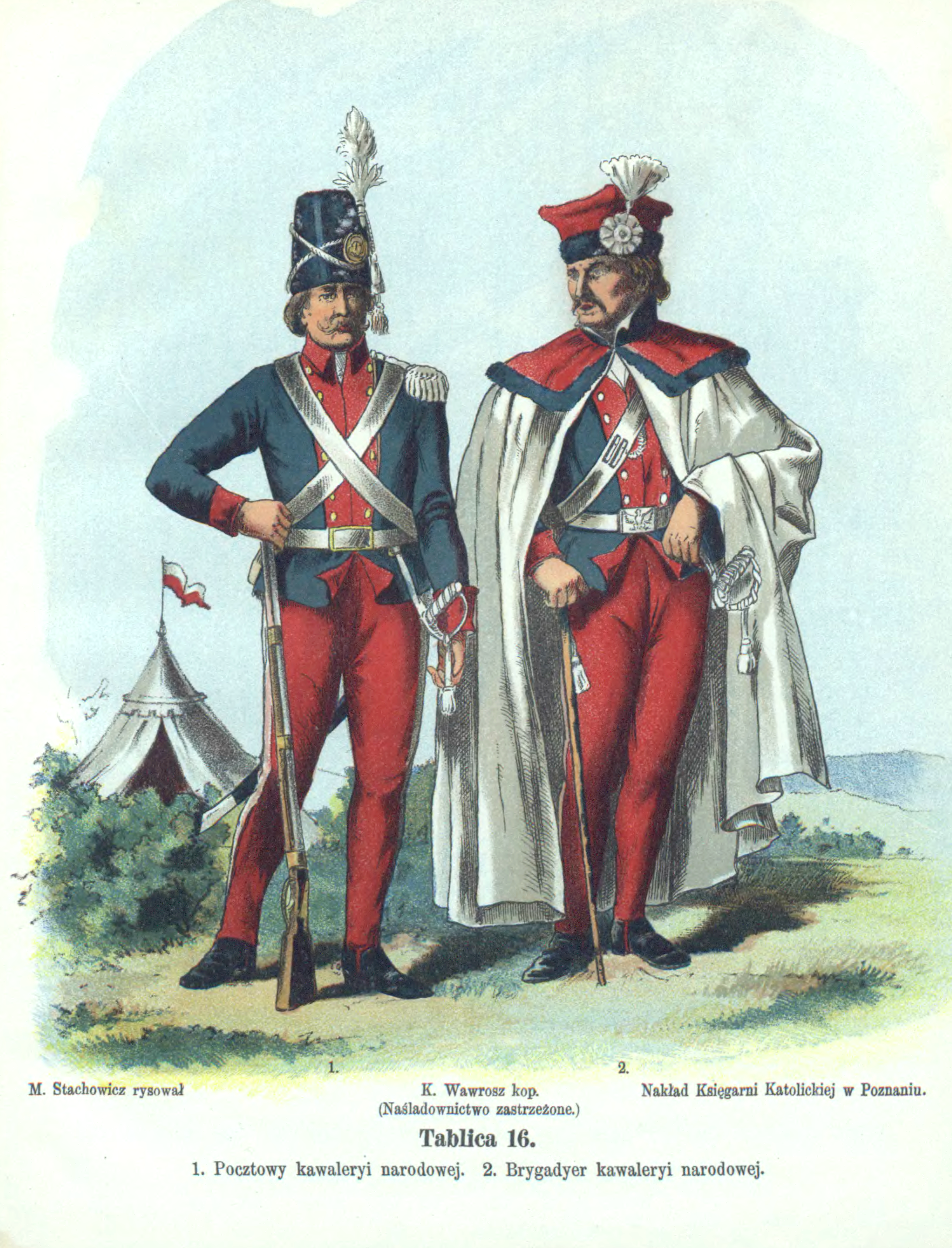 Polish cavalry 1794